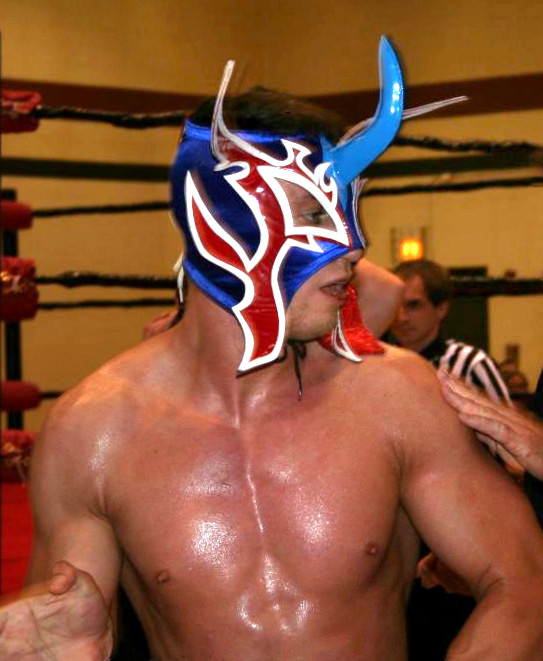 Egotistico Fantastico at the 2008 Ted Petty Invitational